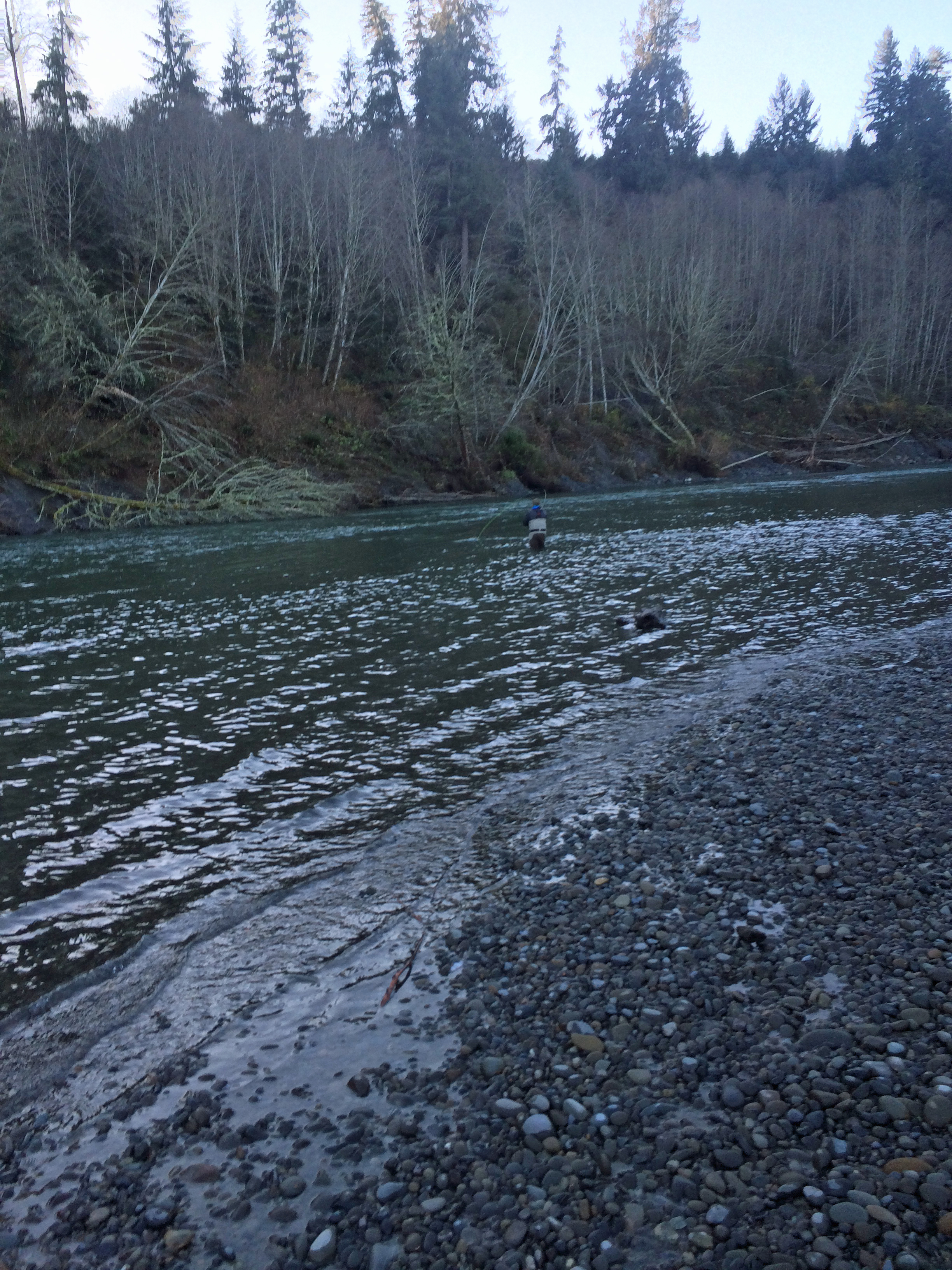 Bogachiel River, near Forks, Washington November 25, 2015